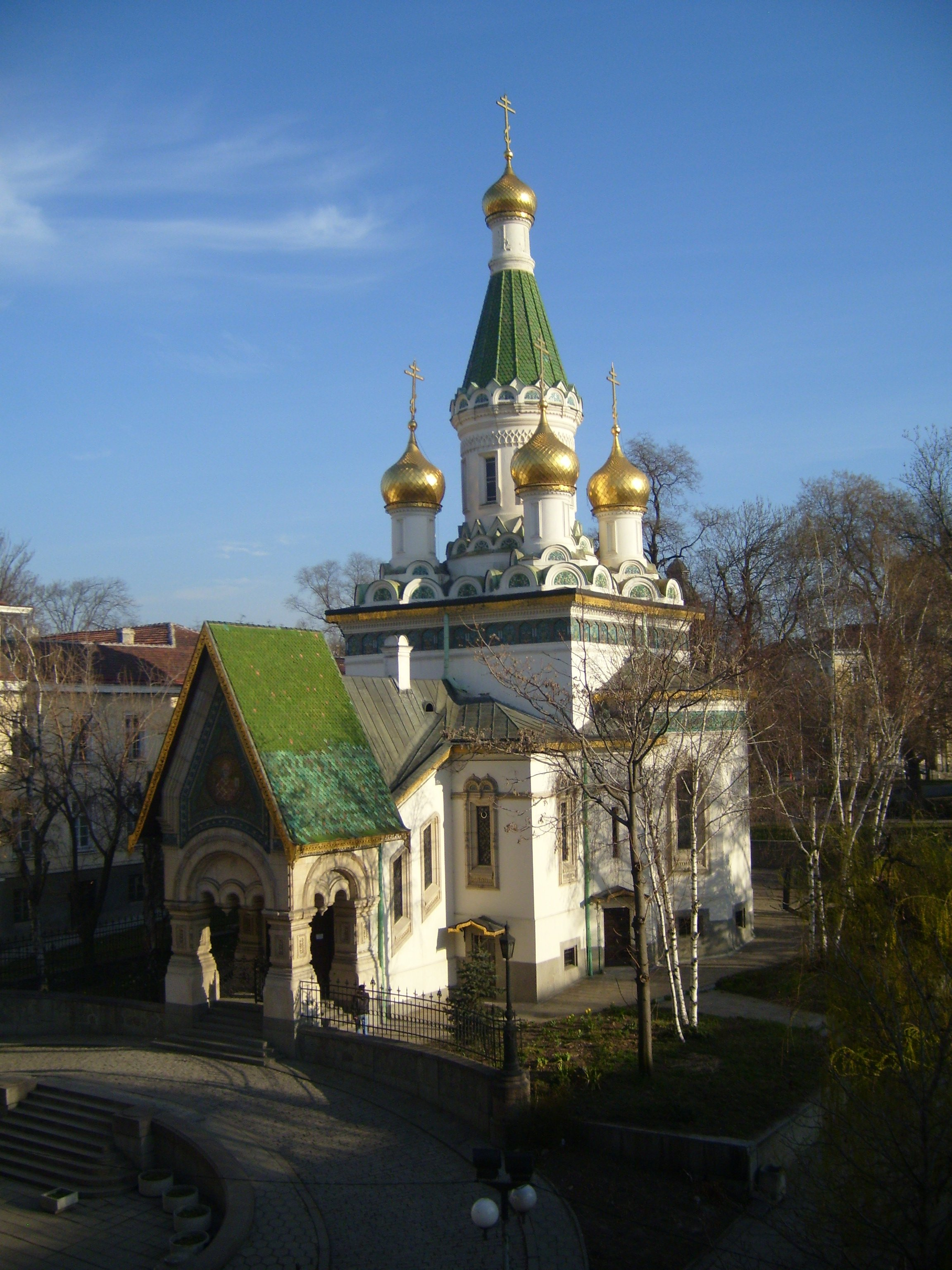 Exterior of the Russian Church in Sofia Bulgaria, morning in spring